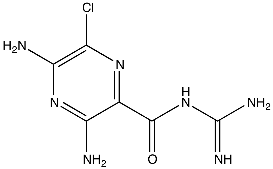 Structure of Amiloride